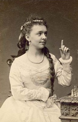 Photograph of the Danish opera singer Sophie Keller (1850-1929).